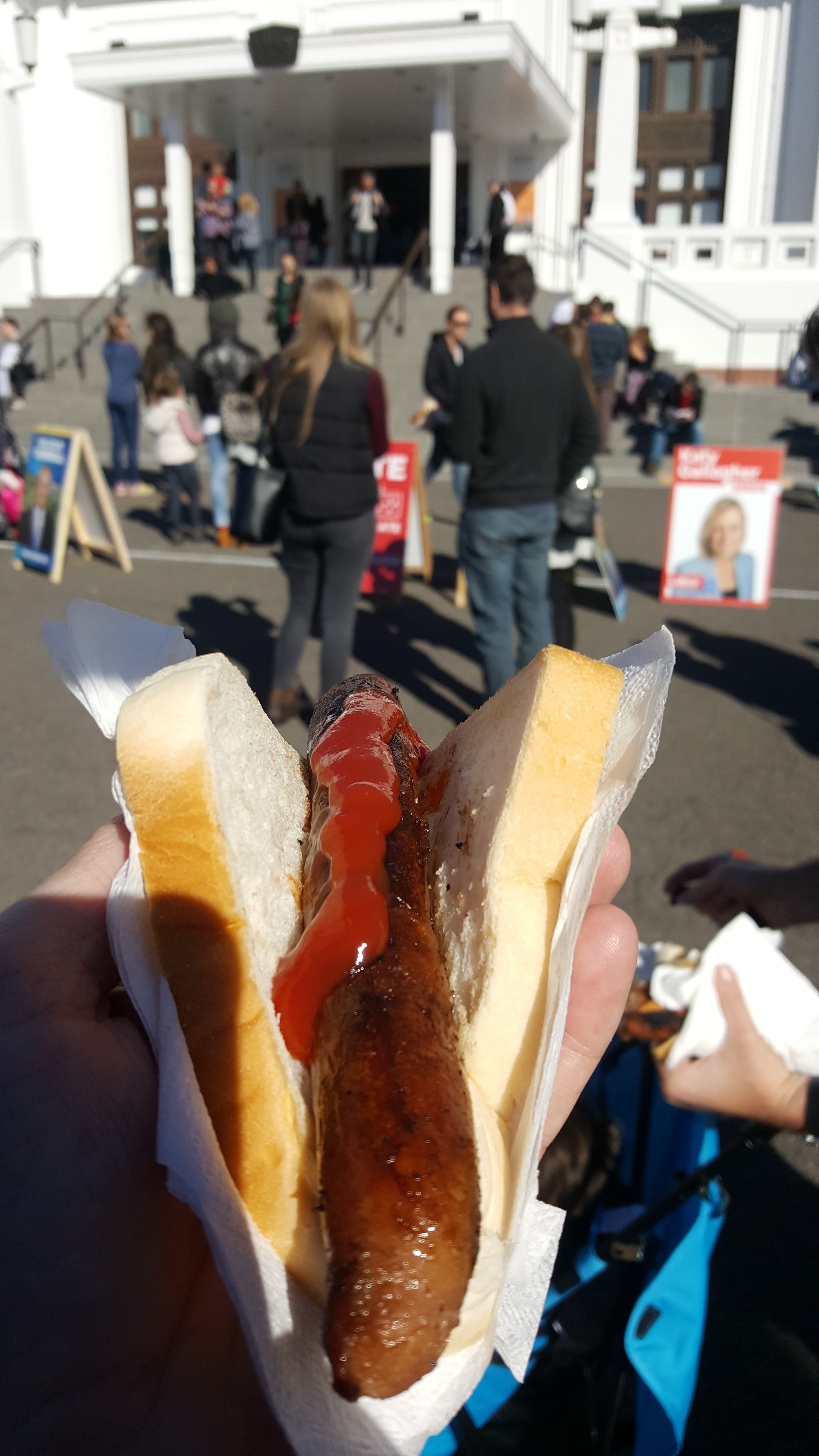 A democracy sausage eaten outside Old Parliament House during the 2016 Australian Federal Election.